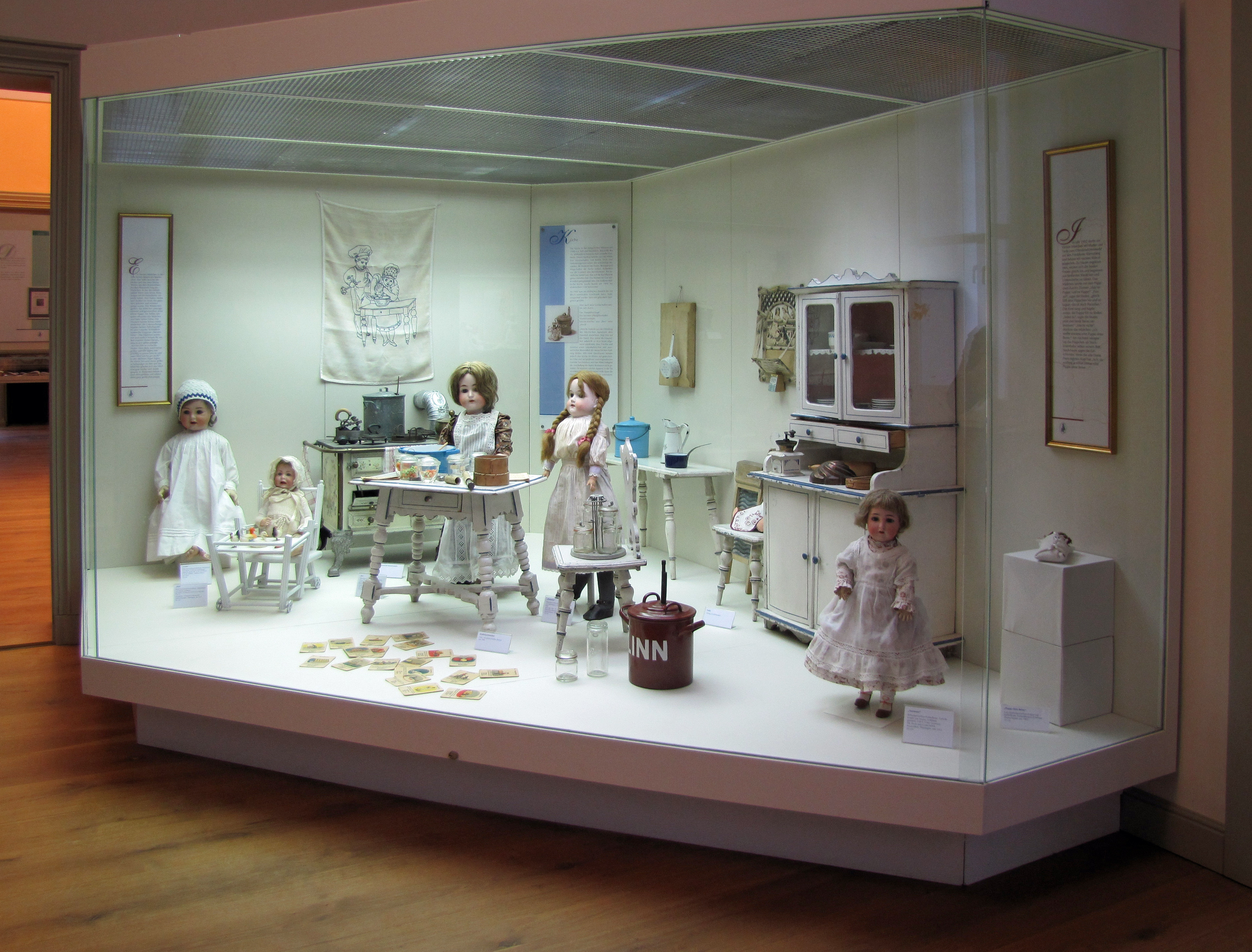 Puppet museum, Hanau-Wilhelmsbad, Staatspark, Hesse, Germany.